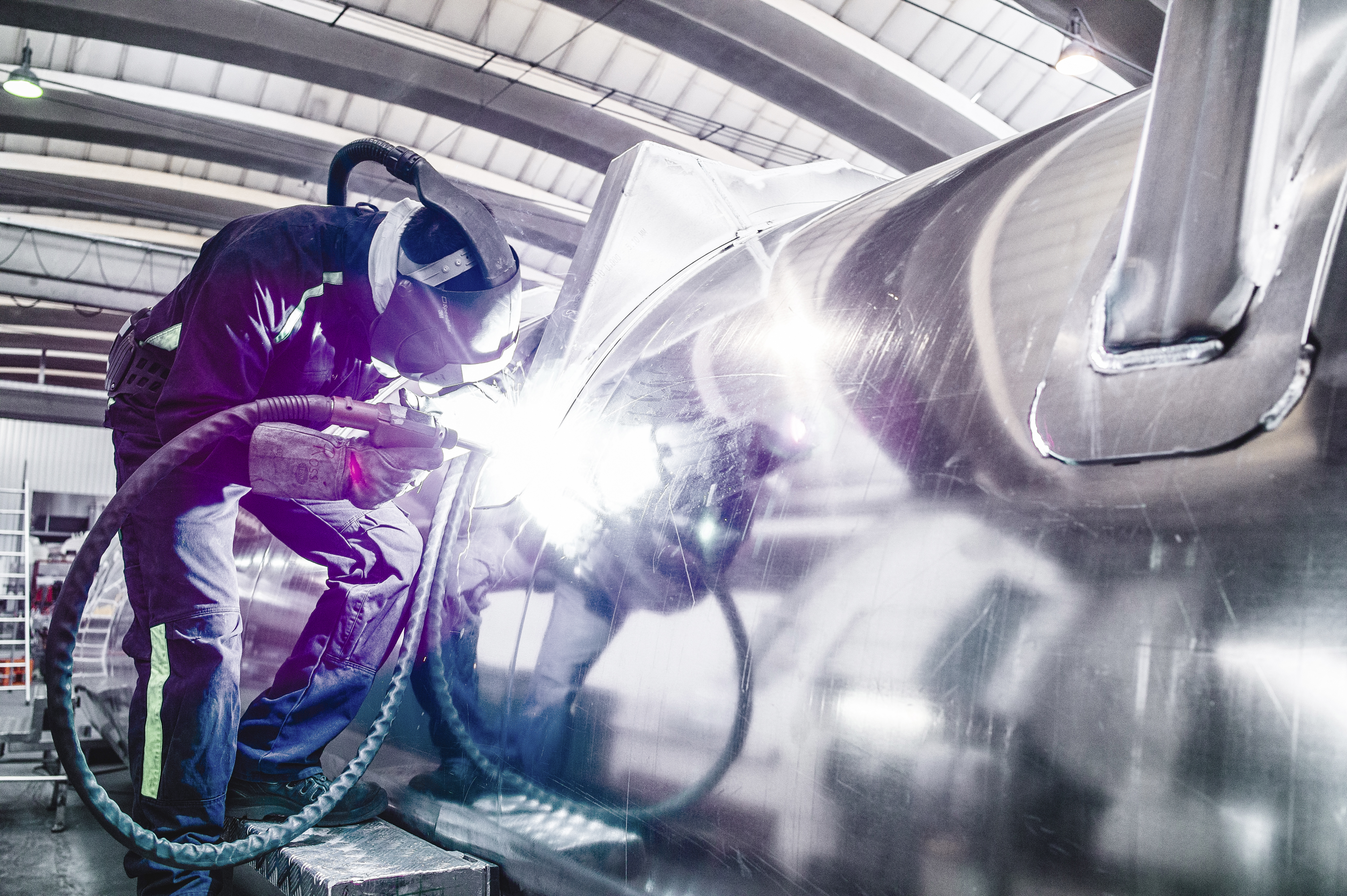 welding